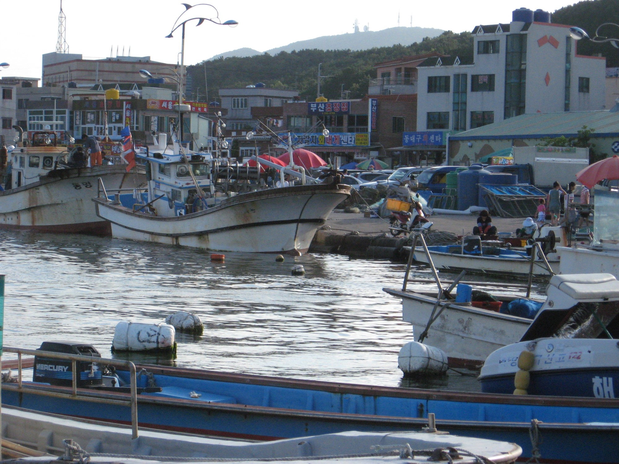 Boats in the harbor town of Jeongja, near Ulsan, South Korea